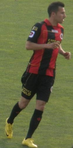 Yasin Öztekin, Turkish footballer